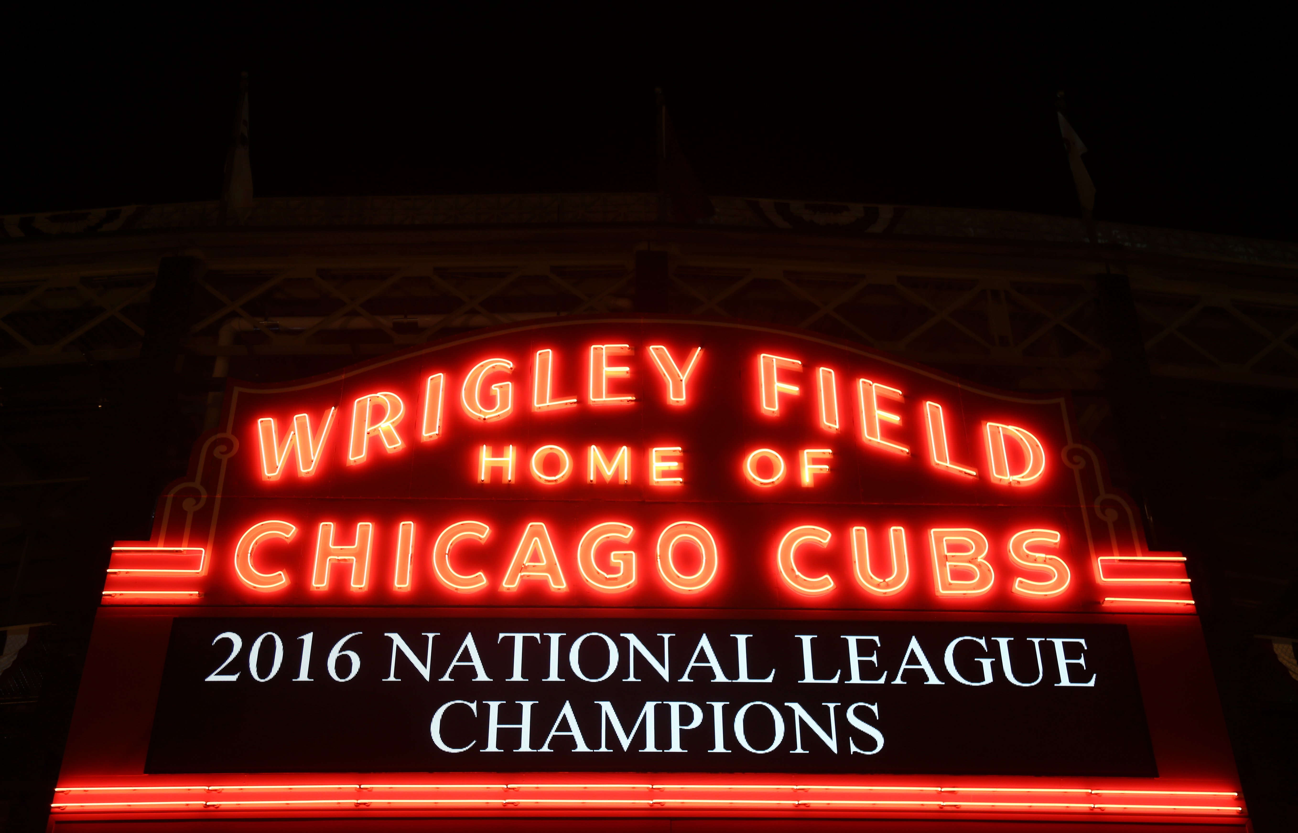 The Wrigley Field marquee says it all - 2016 National League champions.